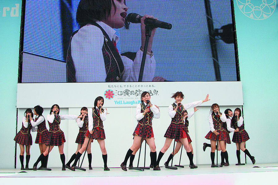 Performers at 3rd Okinawa International Movie Festival, 2011